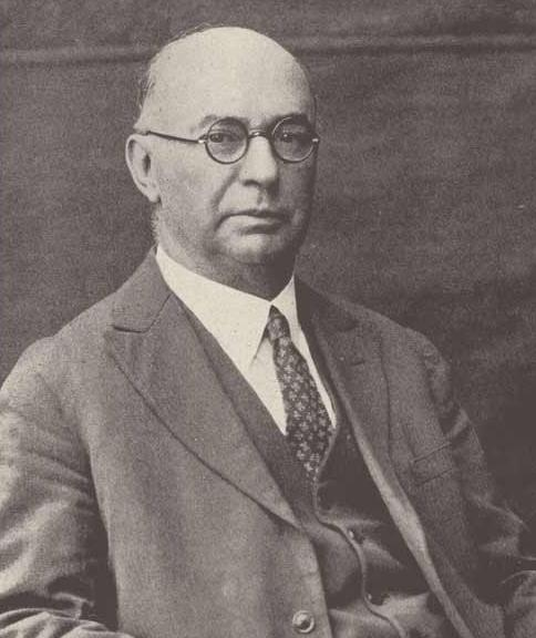 Sir William James Wanless (1865-1933)Photograph published in: William Perkins Bull, From medicine man to medical man : a record of a century and a half of progress in health and sanitation as exemplified by developments in Peel, The Perkins Bull Foundation, George J. McLeod, Ltd., Toronto, 1934, page 361.This file is a cropped version of the photograph. For the uncropped version, see source.